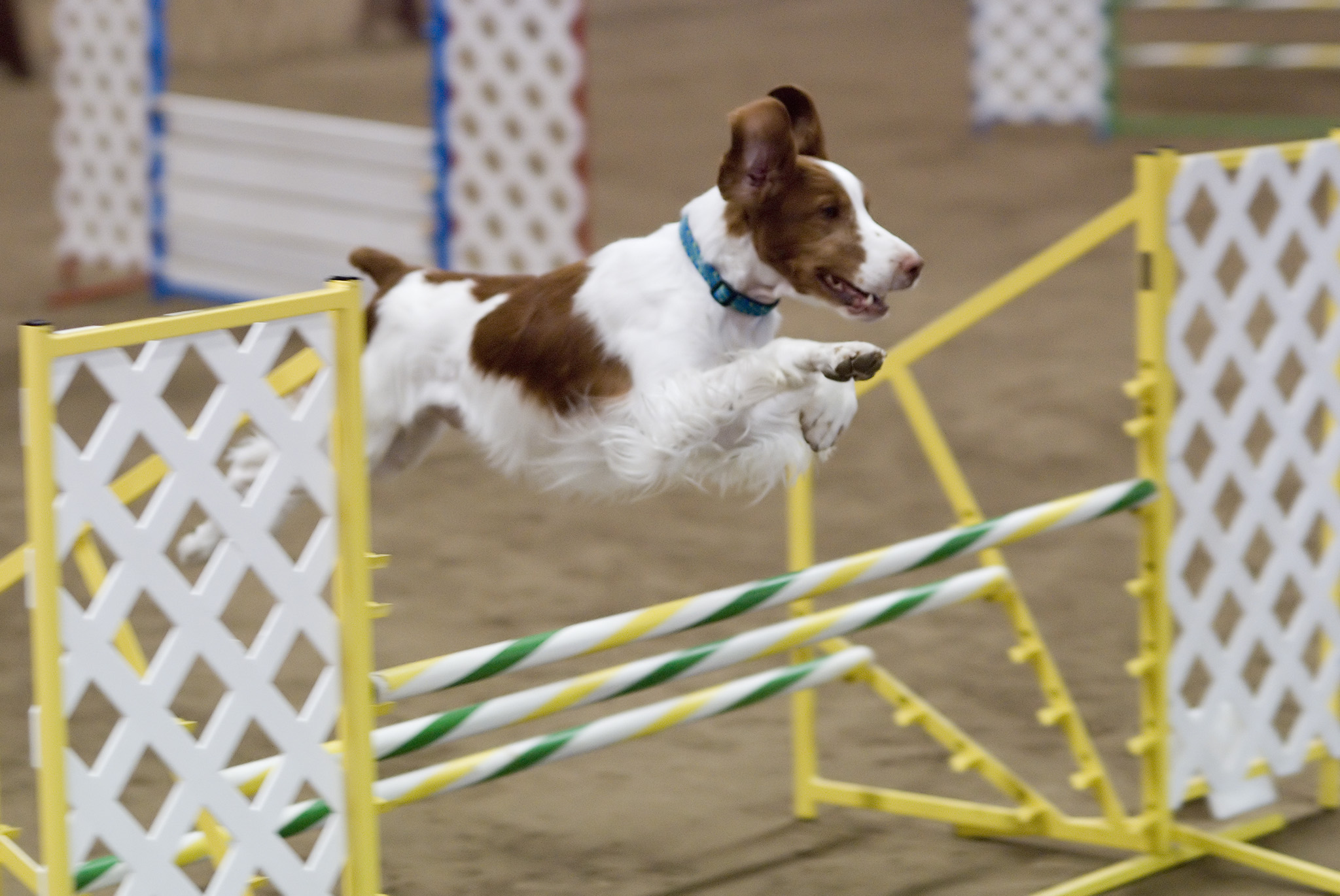 A Brittany jumping at an agility competition.